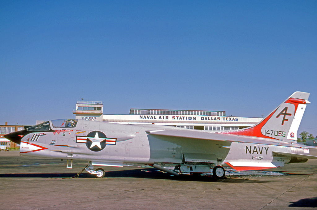 A U.S. Navy Reserve Vought F-8H Crusader (BuNo 147055), "AF-111", of VF-201 Squadron at Naval Air Station Dallas, Texas (USA), in 1975.